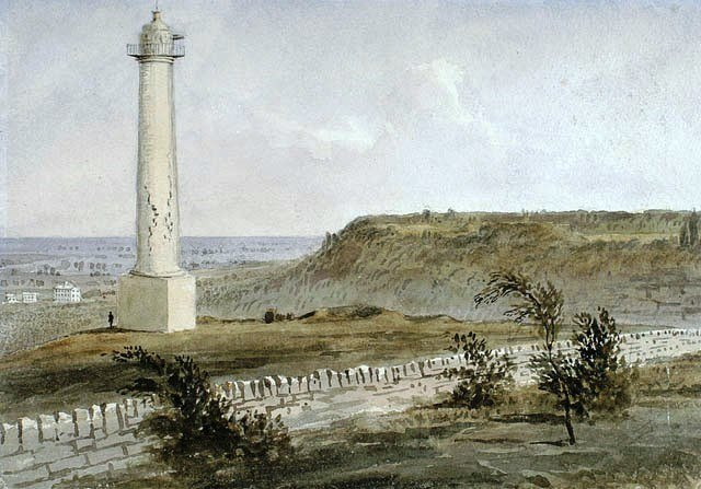 Brock's Monument, Queenston Heights, watercolour over pencil on wove paper, 24.300 x 16.500 cm